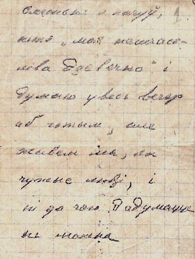 Note from Maksim Bahdanovich to Zoska Veras, written during a game of youth at the party.